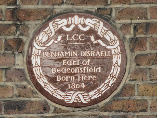 Brown LCC plaque re Benjamin Disraeli on 22 Theobald's Road, WC1